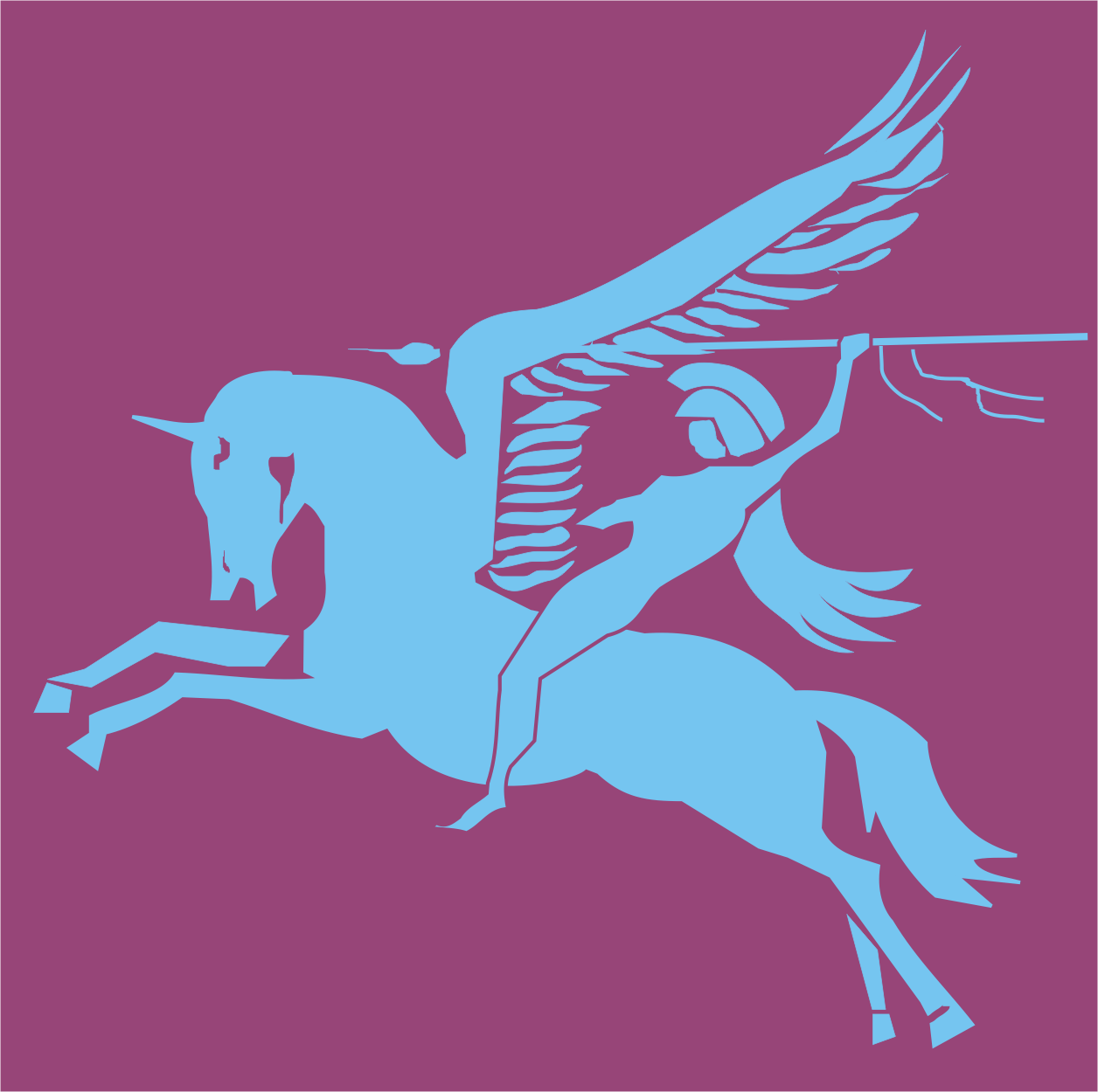 Coat of arms of the British airborne units.